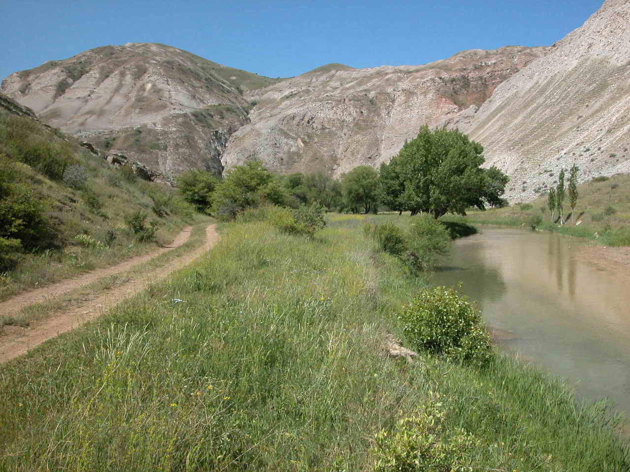 Gypsum hills with stream and riparian habitat, at 1330 m s.l. (4,400 ft. elev.) - near Mescitli 10 km S von Sivas, on the road to Malatya - Anatolia